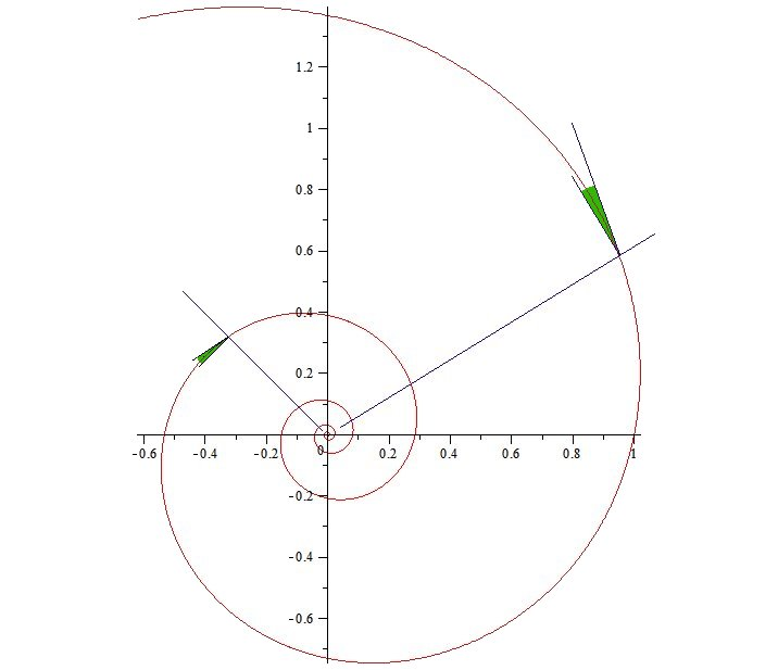 The logaritmic spiral. The pitch angle, the angle between the tangent line and the line orthogonal to the radius is constant.